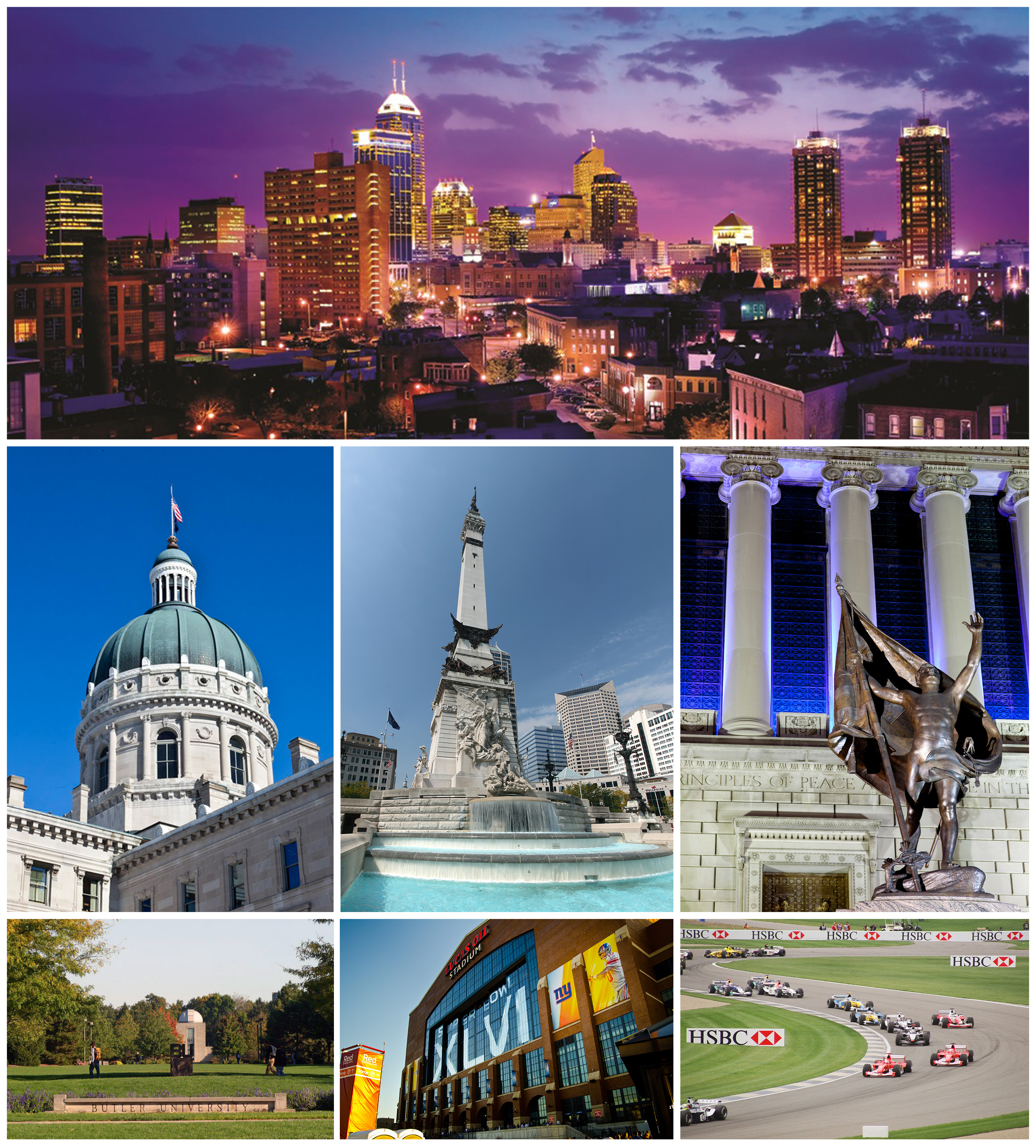 Second Indianapolis montage with less clutter.